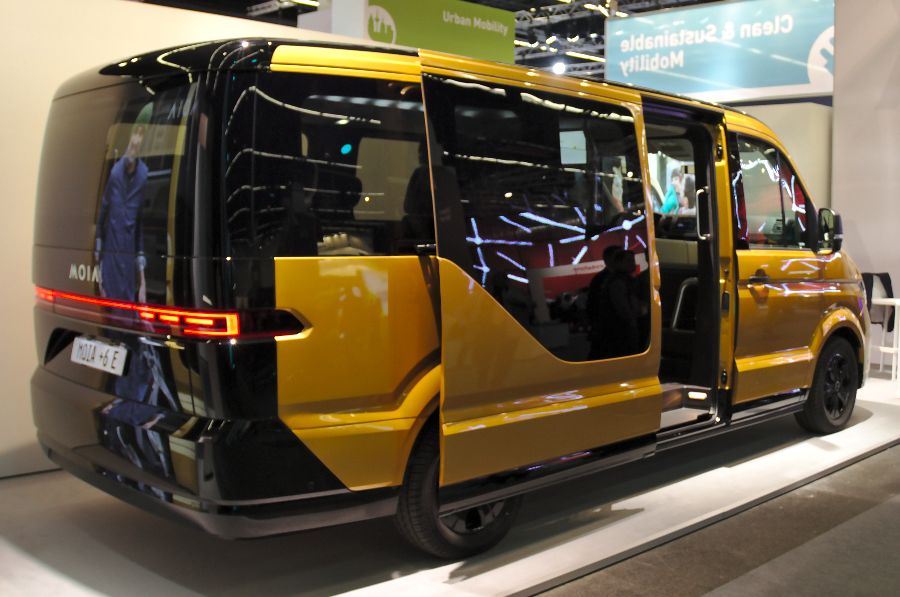 MOIA_van at IAA 2019